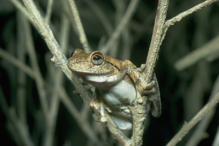 Litoria rothii